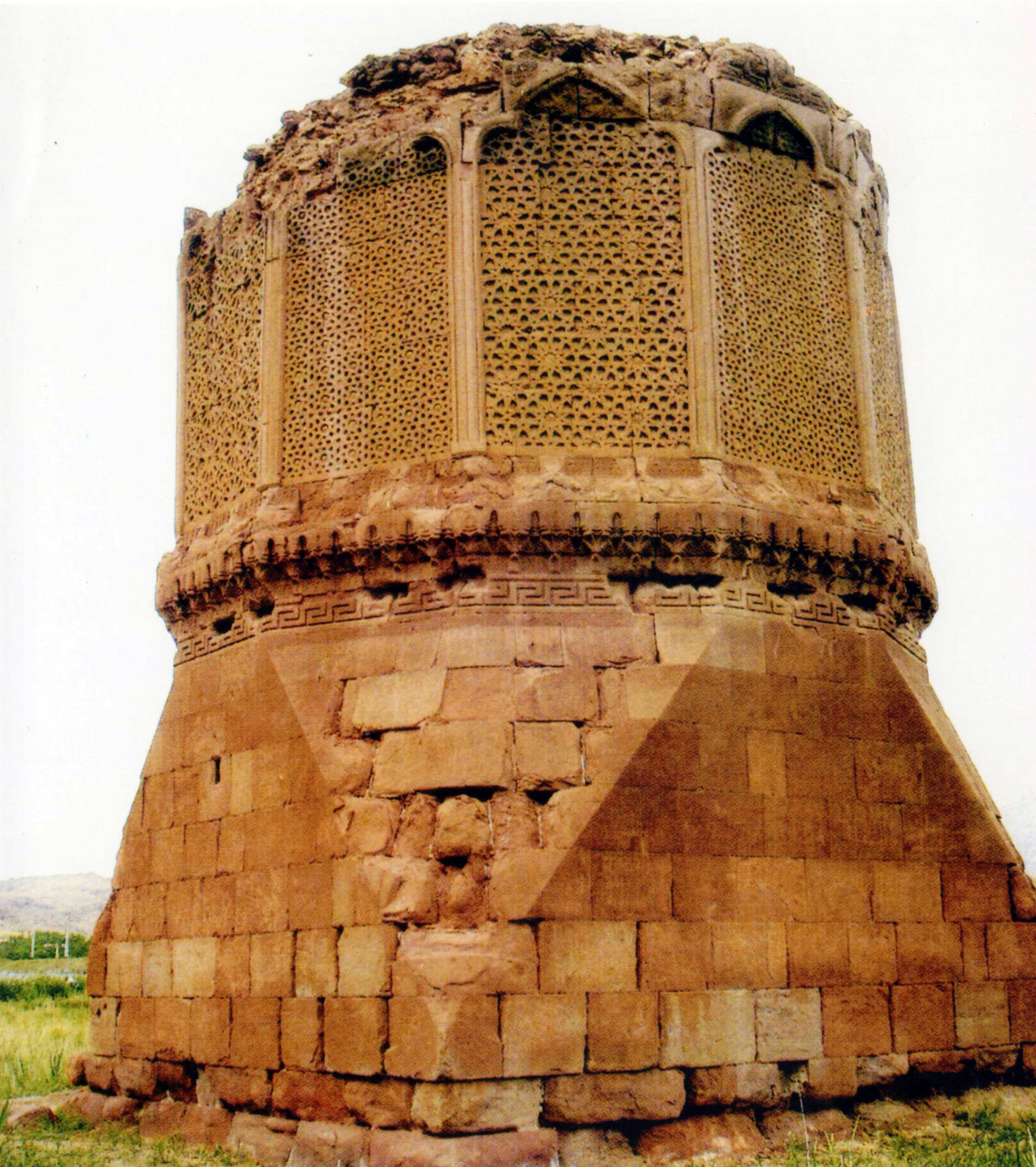 Gulustan tomb in Nakhchivan